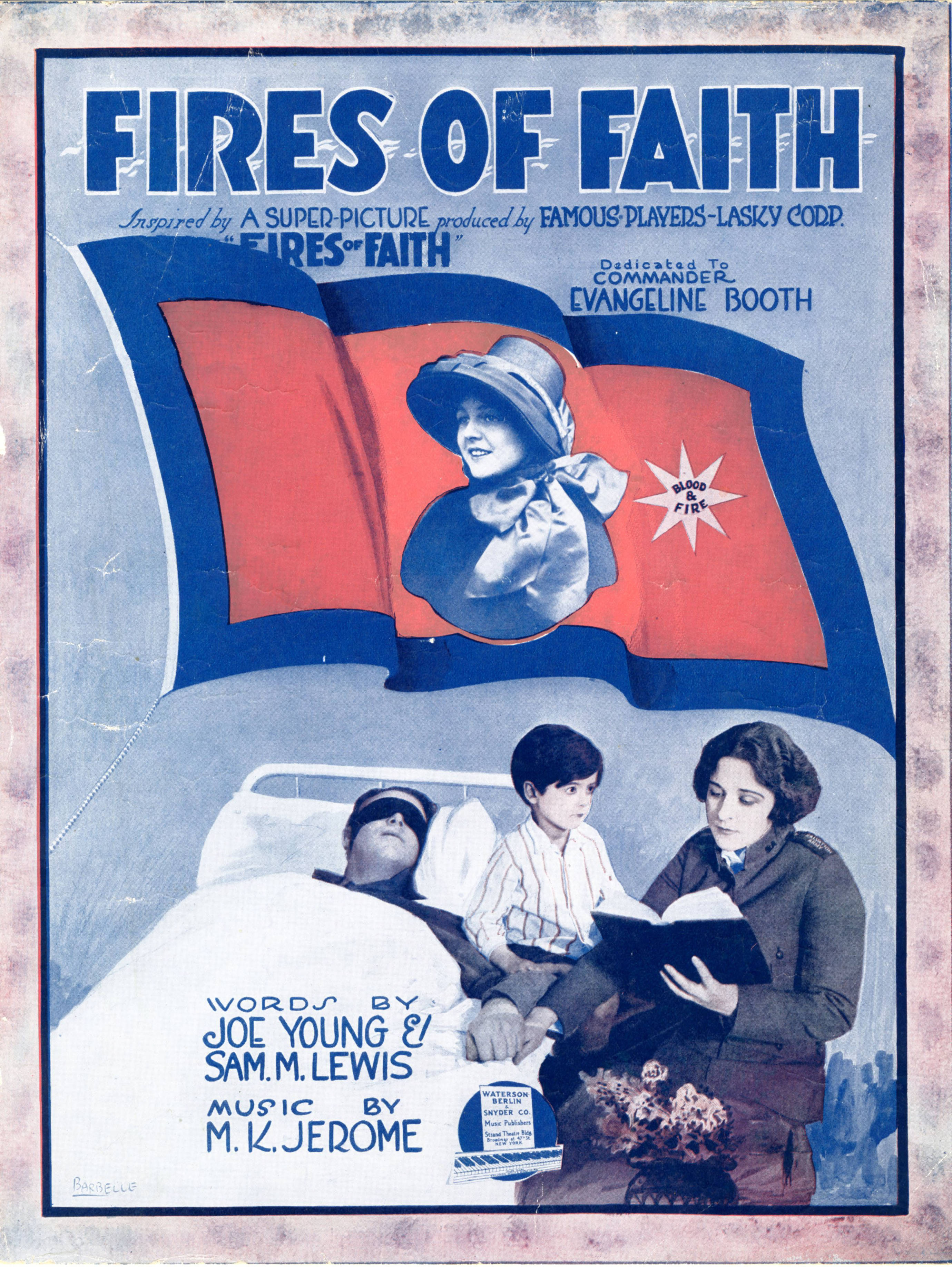 Sheet music cover: "Fires Of Faith" 1 vocal score (3 p) ; 31 cm. Illustrated cover with images of Eugene O'Brien and Catherine Calvert / Barbelle. Fires Of Faith (Motion picture : 1919)